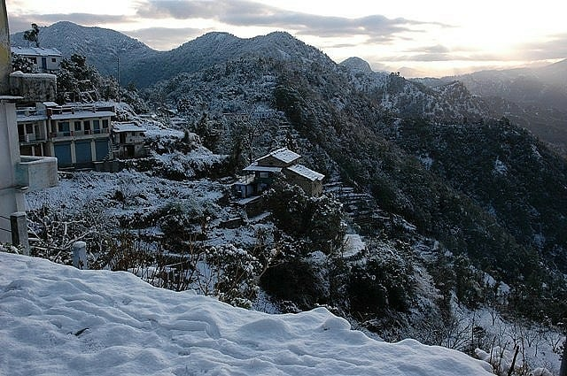 Khirsu Hill Station